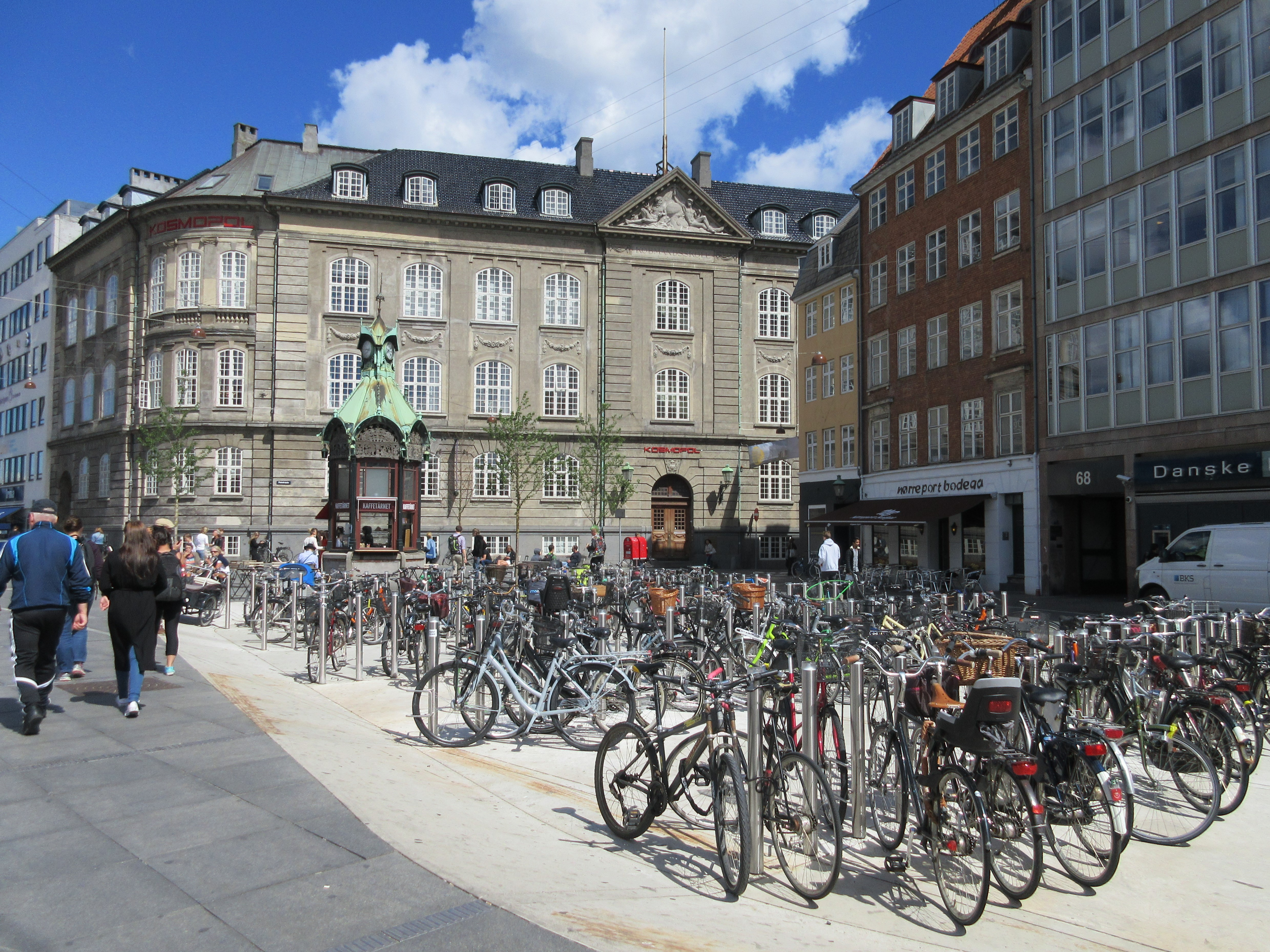 Æggetorvet in Copenhagen, Denmark